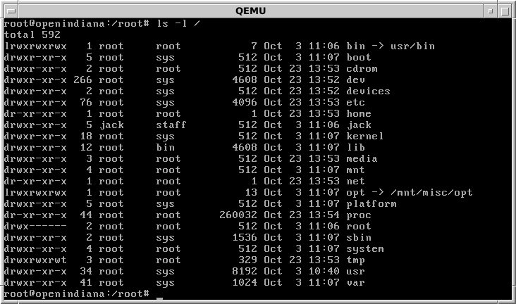 OpenIndiana snapshot from October 2015, showing "ls -l" output for the root filesystem. OpenIndiana is an open-source descendant of SVR4 and the Solaris operating system through the now-defunct OpenSolaris.